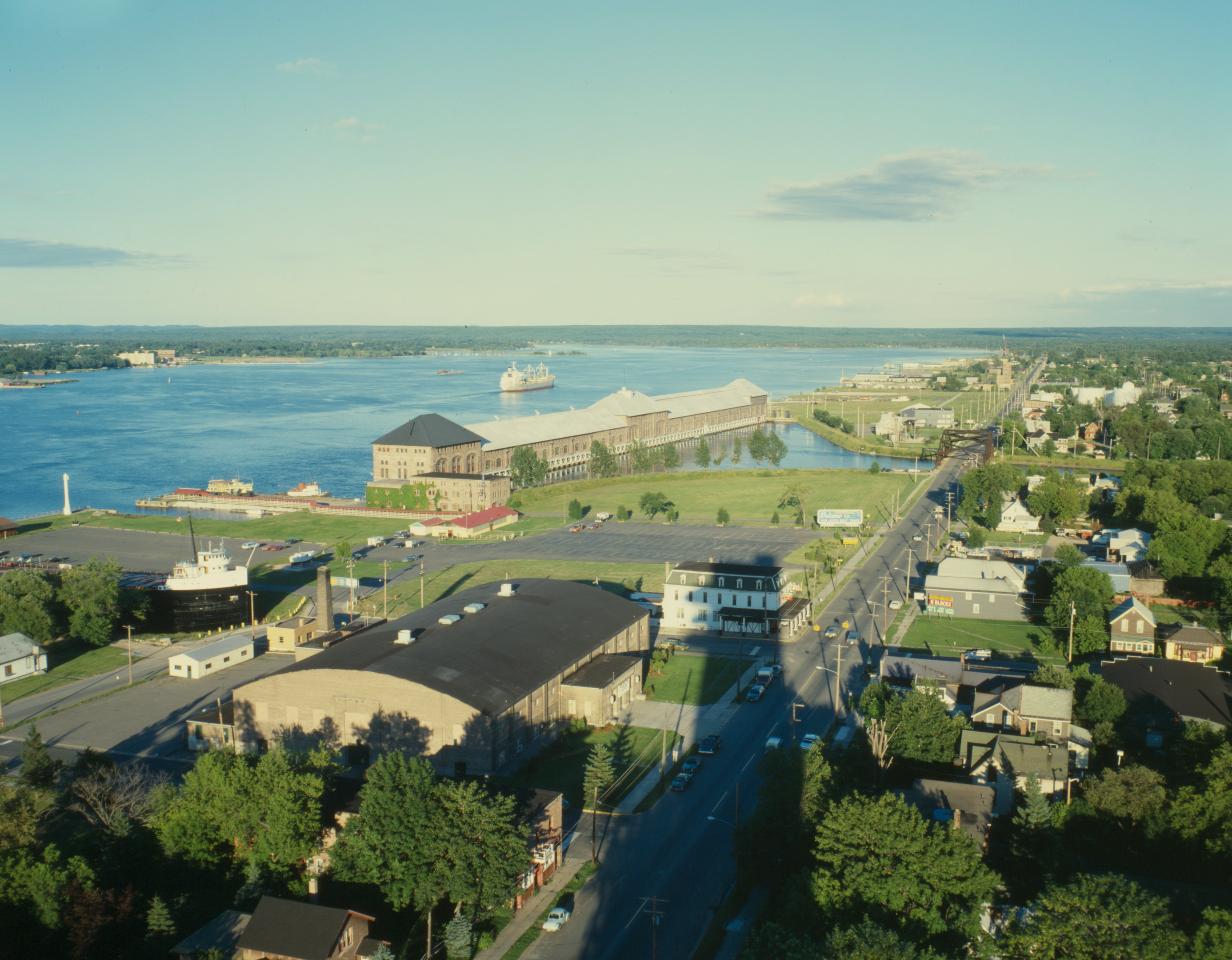 Powerhouse from Tower of History, general view southeast. Michigan Lake Superior Power Company, Portage Street, Sault Ste. Marie, Chippewa County, MI Date: July, 1978 Photographer: Jet Lowe